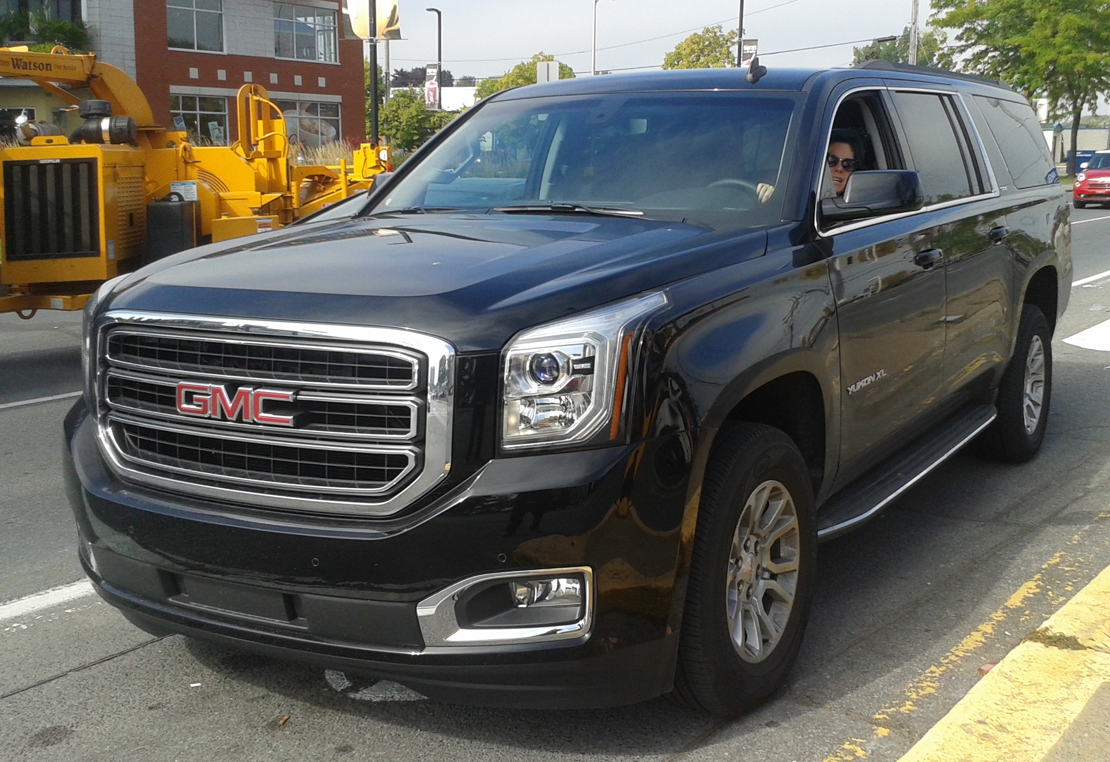 2015 GMC Yukon XL photographed in Dollard-Des-Ormeaux, Quebec, Canada.